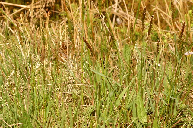 Picture taken in Commanster, Belgian High Ardennes . Species: Anthoxanthum odoratum